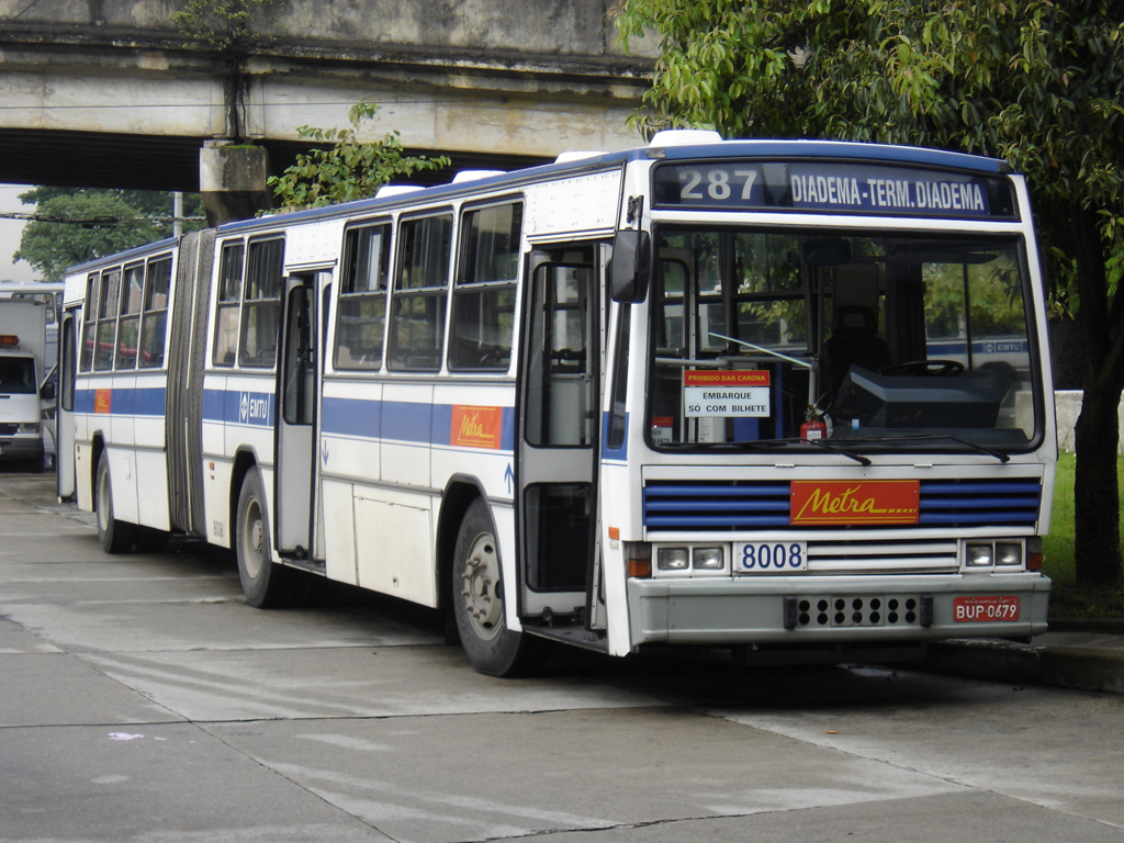 CAIO Vitória Articulado Automático bus (reg. BUP-0679, #8008) with Volvo B58 chassis in São Bernardo do Campo, São Paulo (state), Brazil. Metra operator.